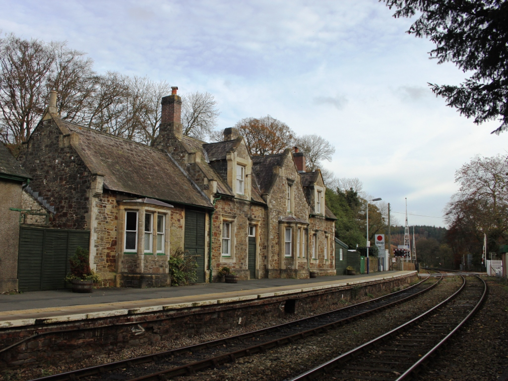 Eggesford railway station is a passing place on the Tarka Line from Exeter to Barnstaple in Devon, England. The station offices are on the up (Exeter-bound) platform but are no longer used by the railway.